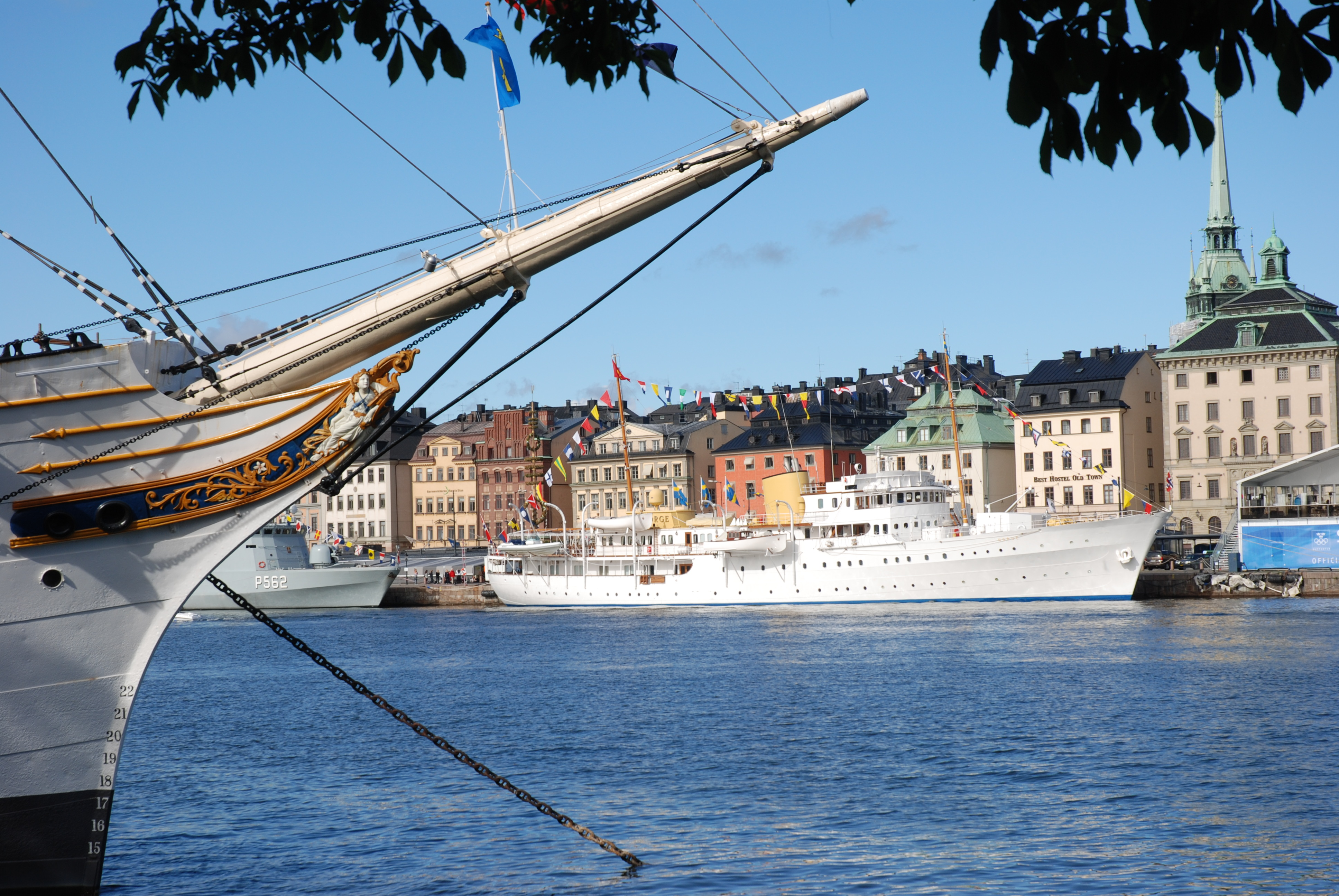 Norwegian Royal Yacht KS Norge, in Stockholm Harbour for the Royal Wedding, June 19, 2010. In the foreground earlier Swedish Navy Training Ship af Chapman